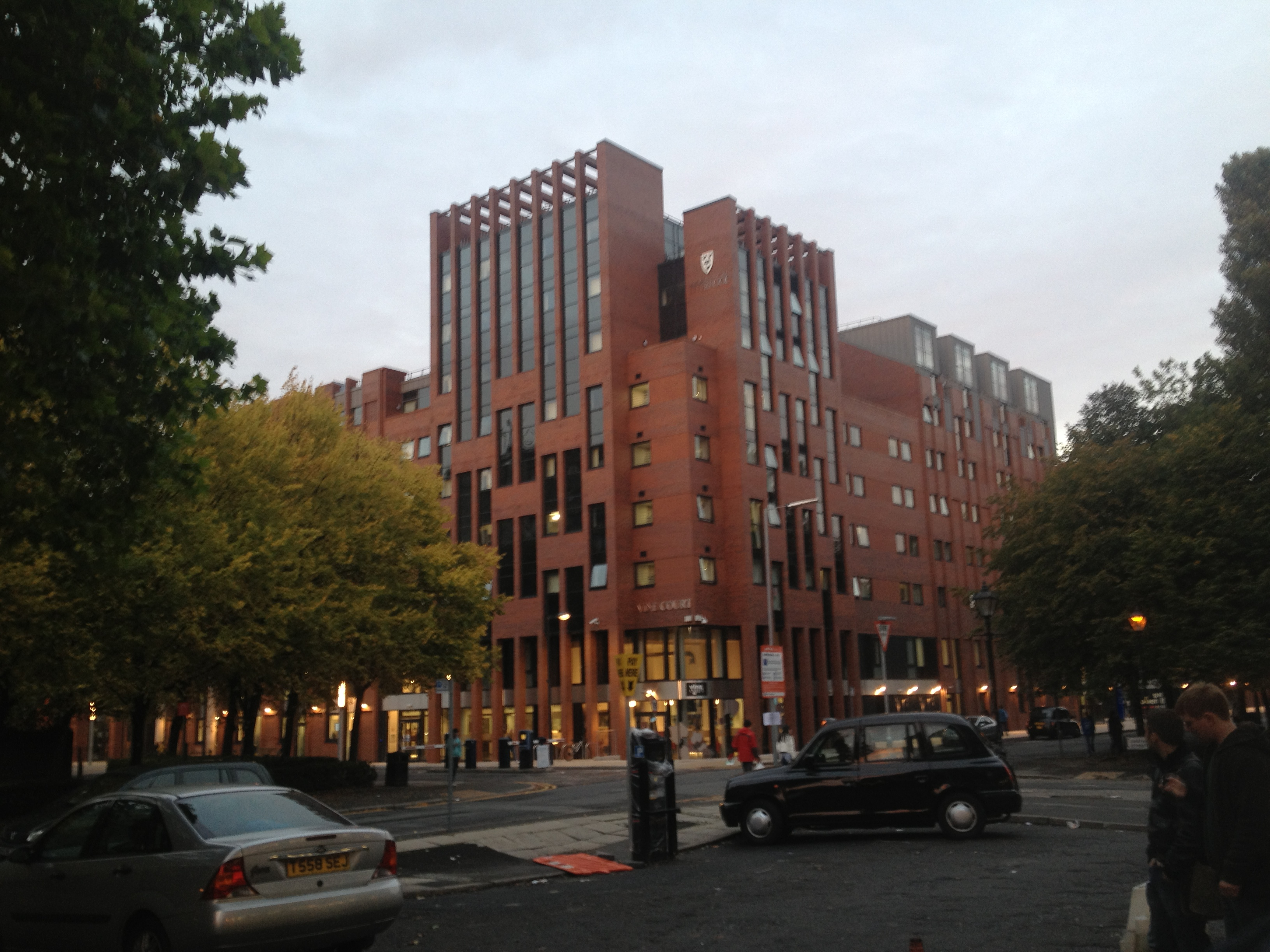 University of Liverpool's newest accommodation on campus, Vine Court